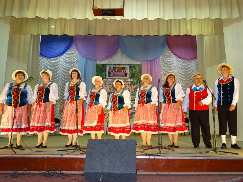 Volksensemble des deutschen Liedes